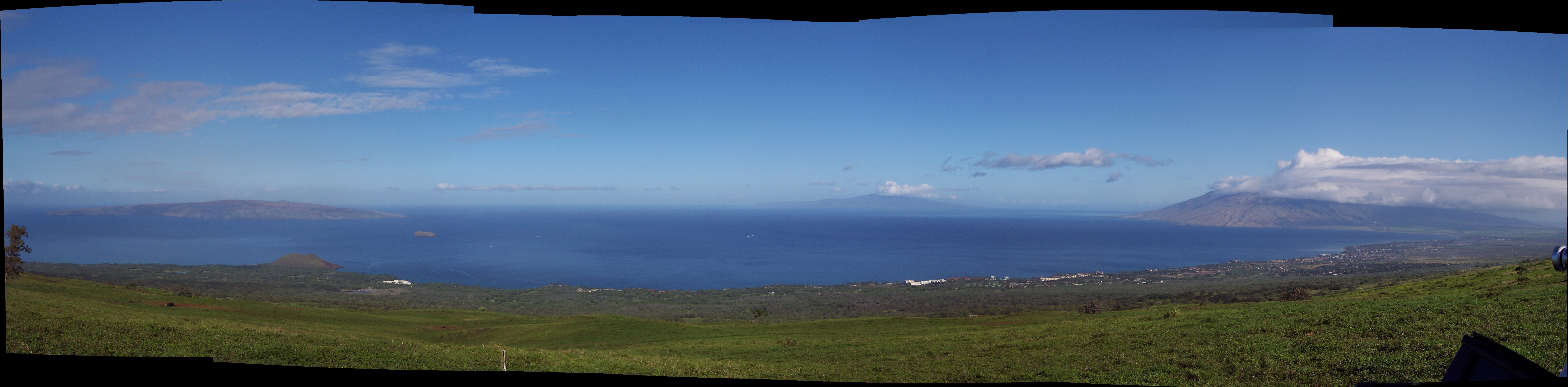 A panoramic of the view of Wailea and Makena from the road to Kula. Stitched with Calico.